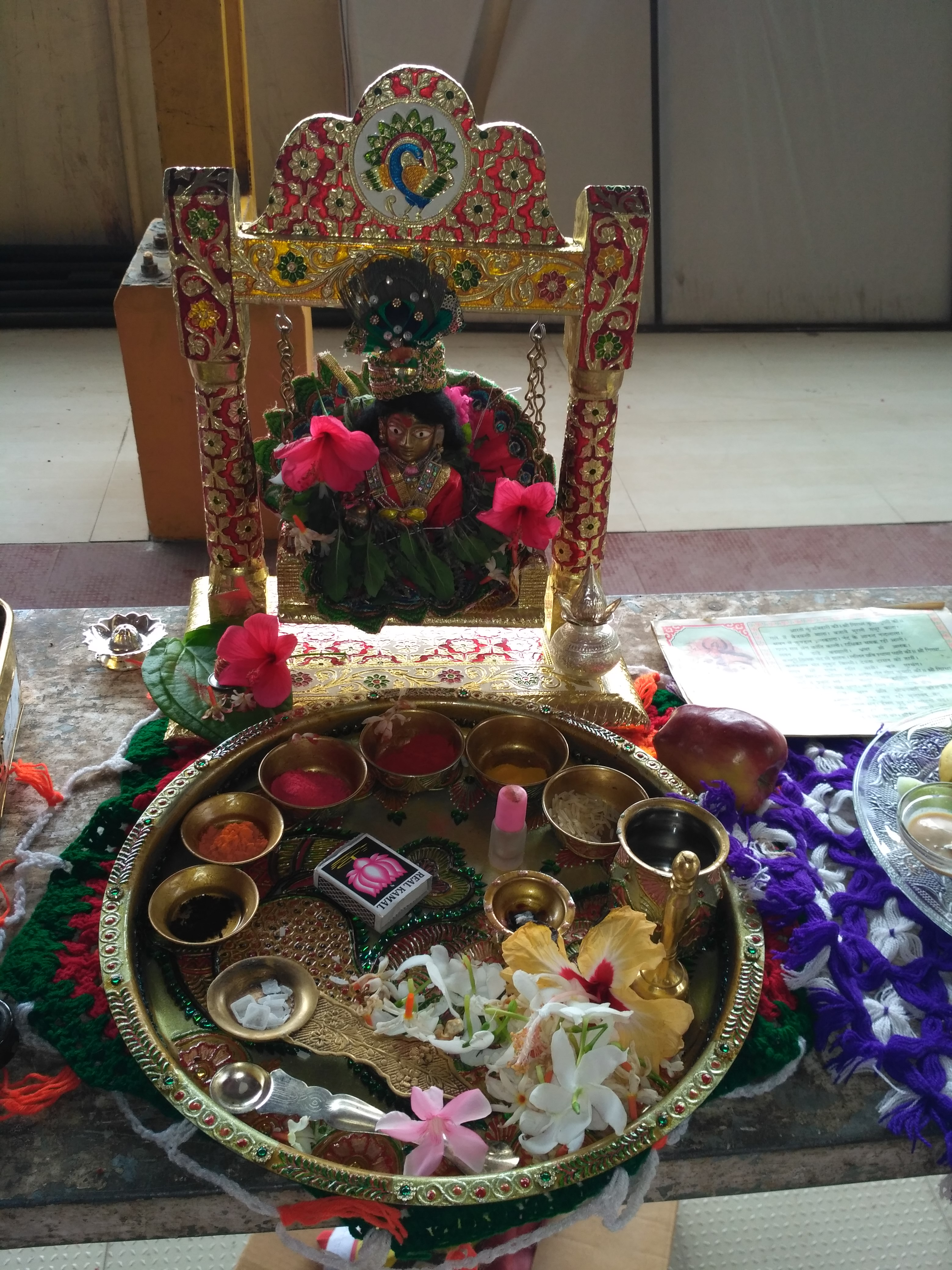 पूजेचे ताम्हन